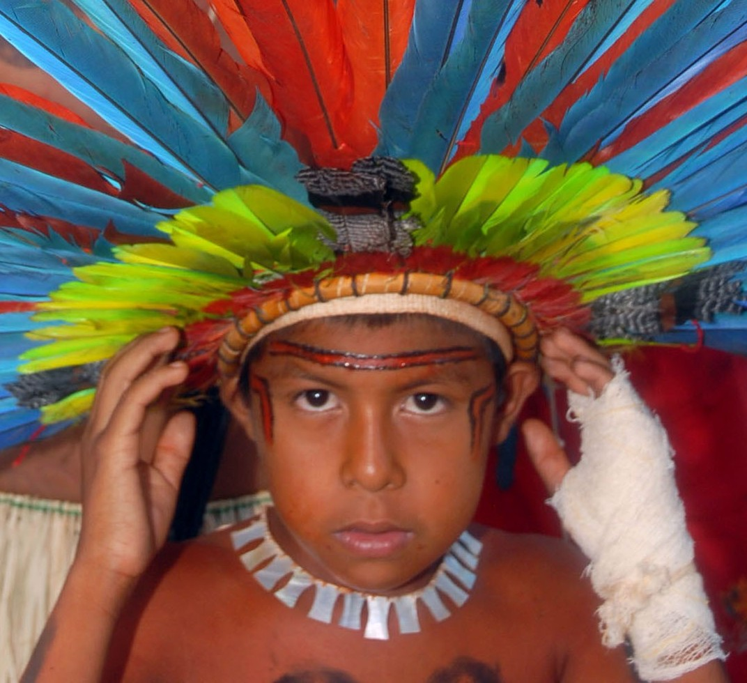 Seven-year-old child Olavo, of the Bororo-Boe ethnicity, at Brazil's ninth Indigenous Games